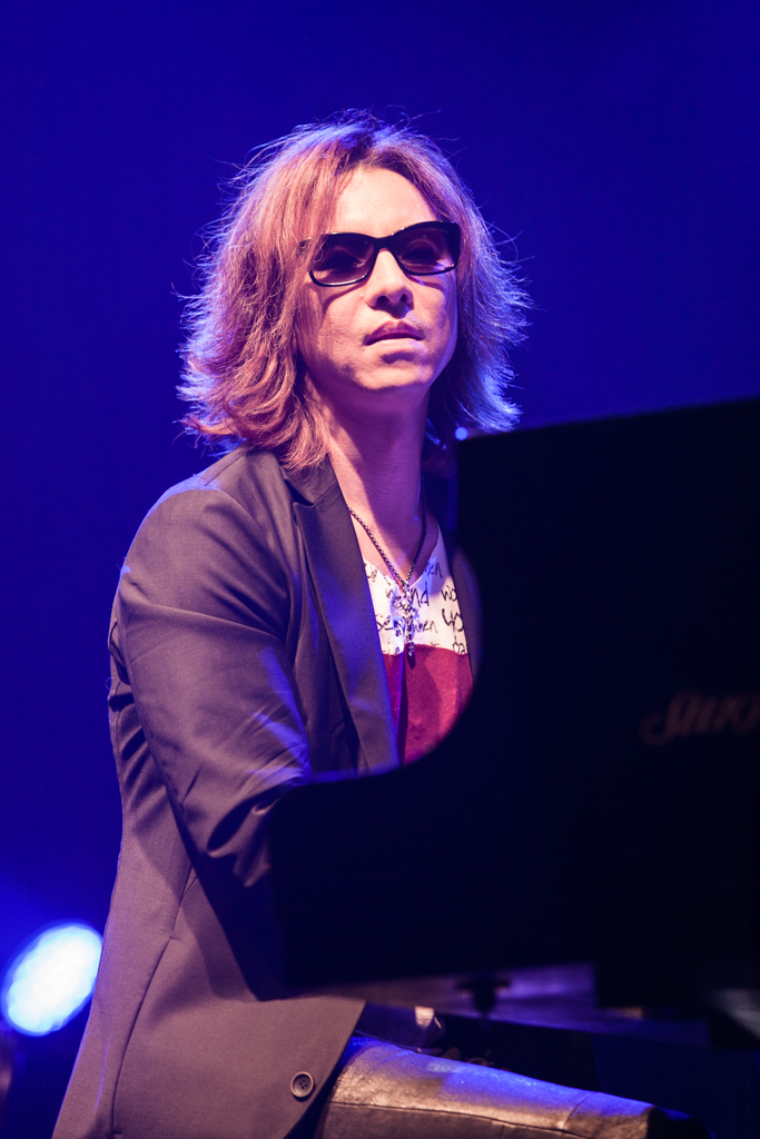 Yoshiki at Japan Expo 2014.